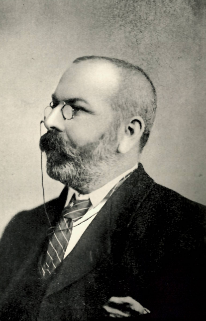 William House, President of the Durham Miners' Association, later Vice-President of the Miners' Federation of Great Britain